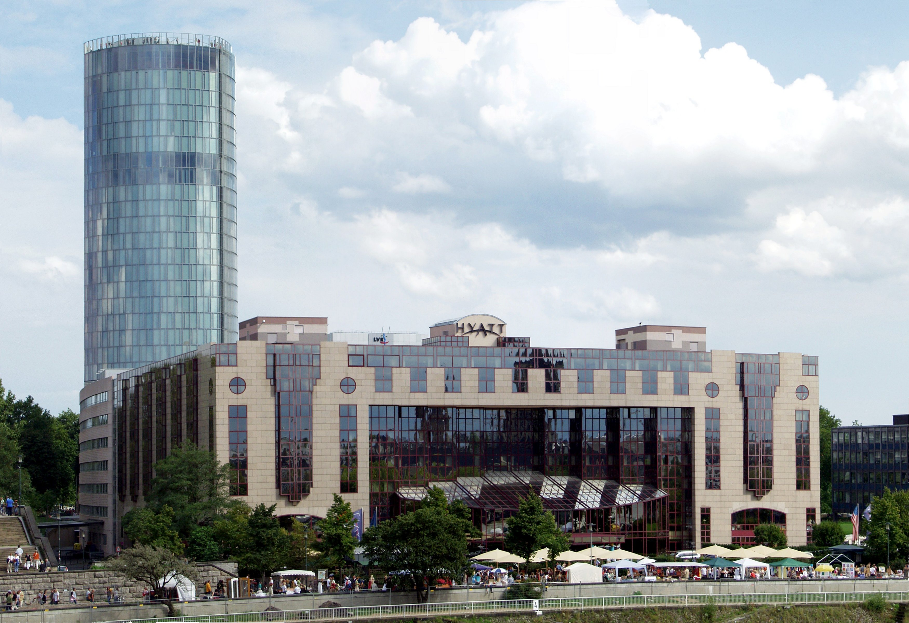 Hyatt Regency Cologne, in the background: KölnTriangle